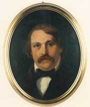 Julius Schuster (Mayor of Ulm from 1845 to 1863)